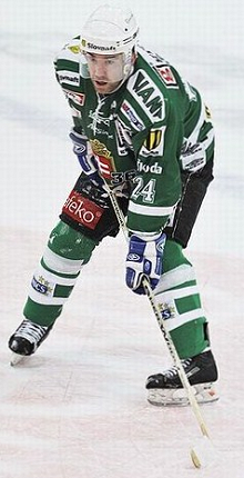 zigo palffy